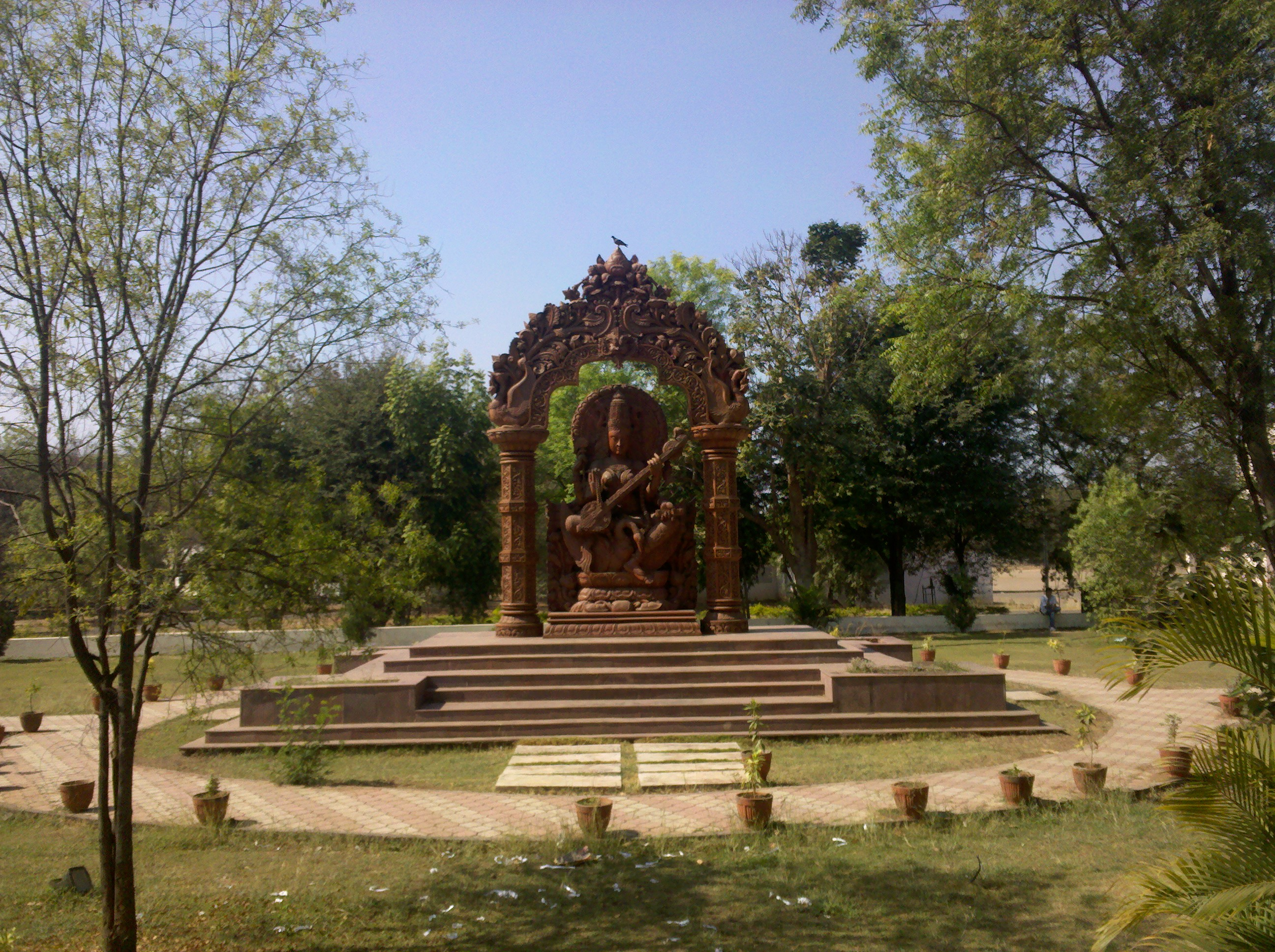 Walchand College of Engineering Sangli Shilp Chintamani